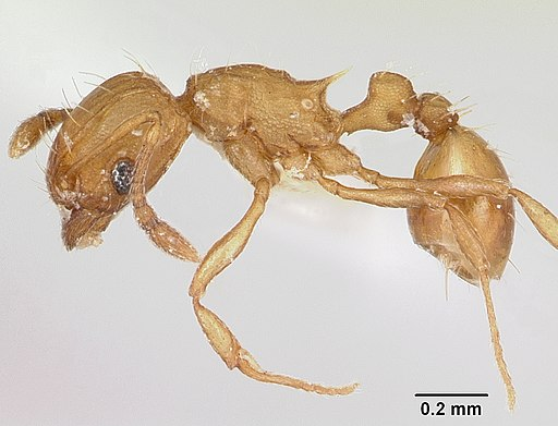 Wasmannia auropunctata (fire ant) is an invasive alien species blamed for reducing species diversity,tree dweeling insects and eliminating arachnid populations.